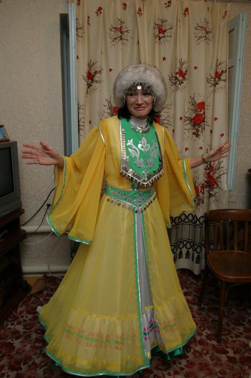 Svetlana Ishmouratova in the Bashkir national costume елән